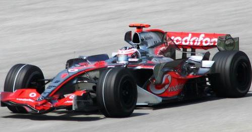 Fernando Alonso driving for McLaren at the 2007 Malaysian Grand Prix, losslessly cropped.